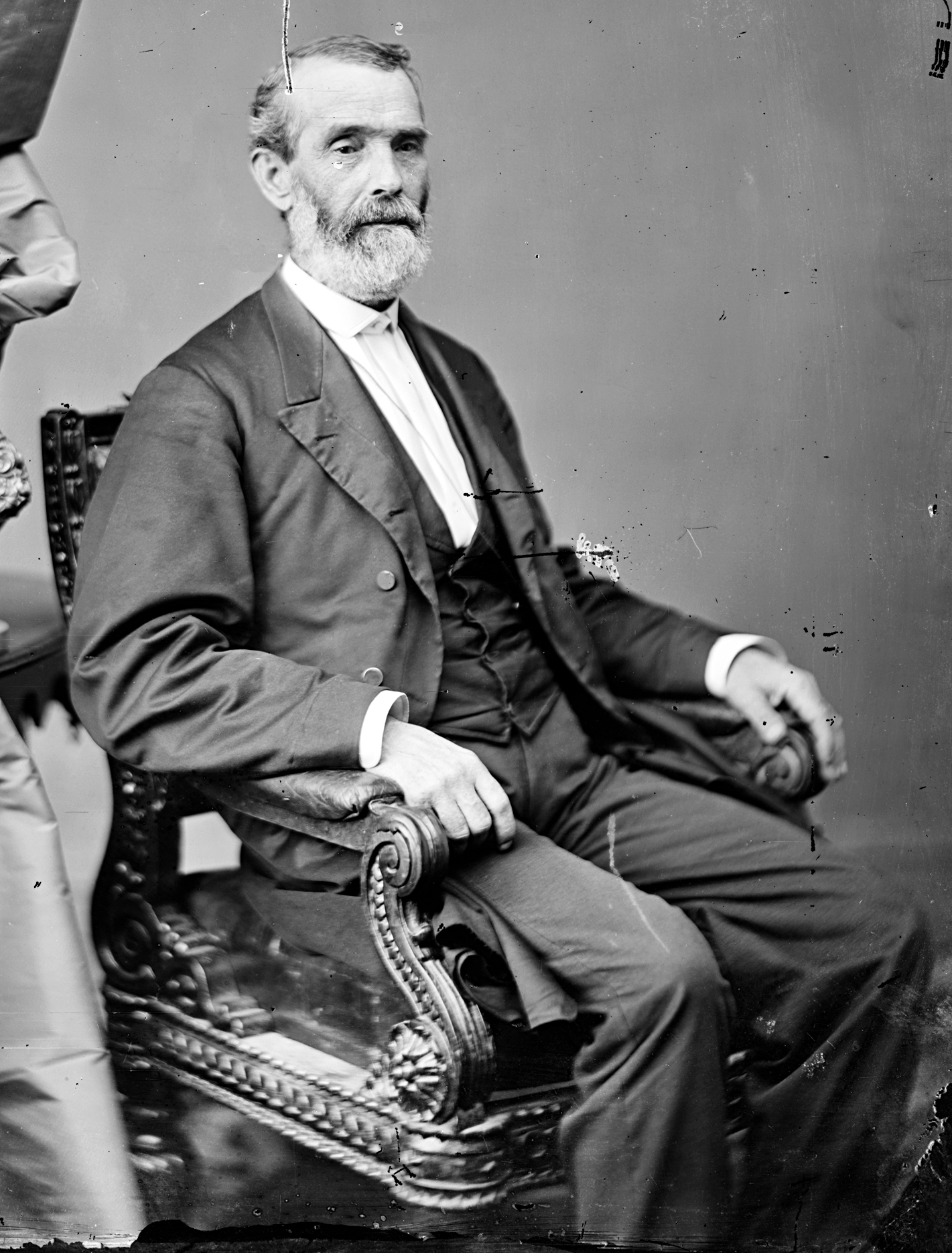 James Mullins, US Representative from Tennessee